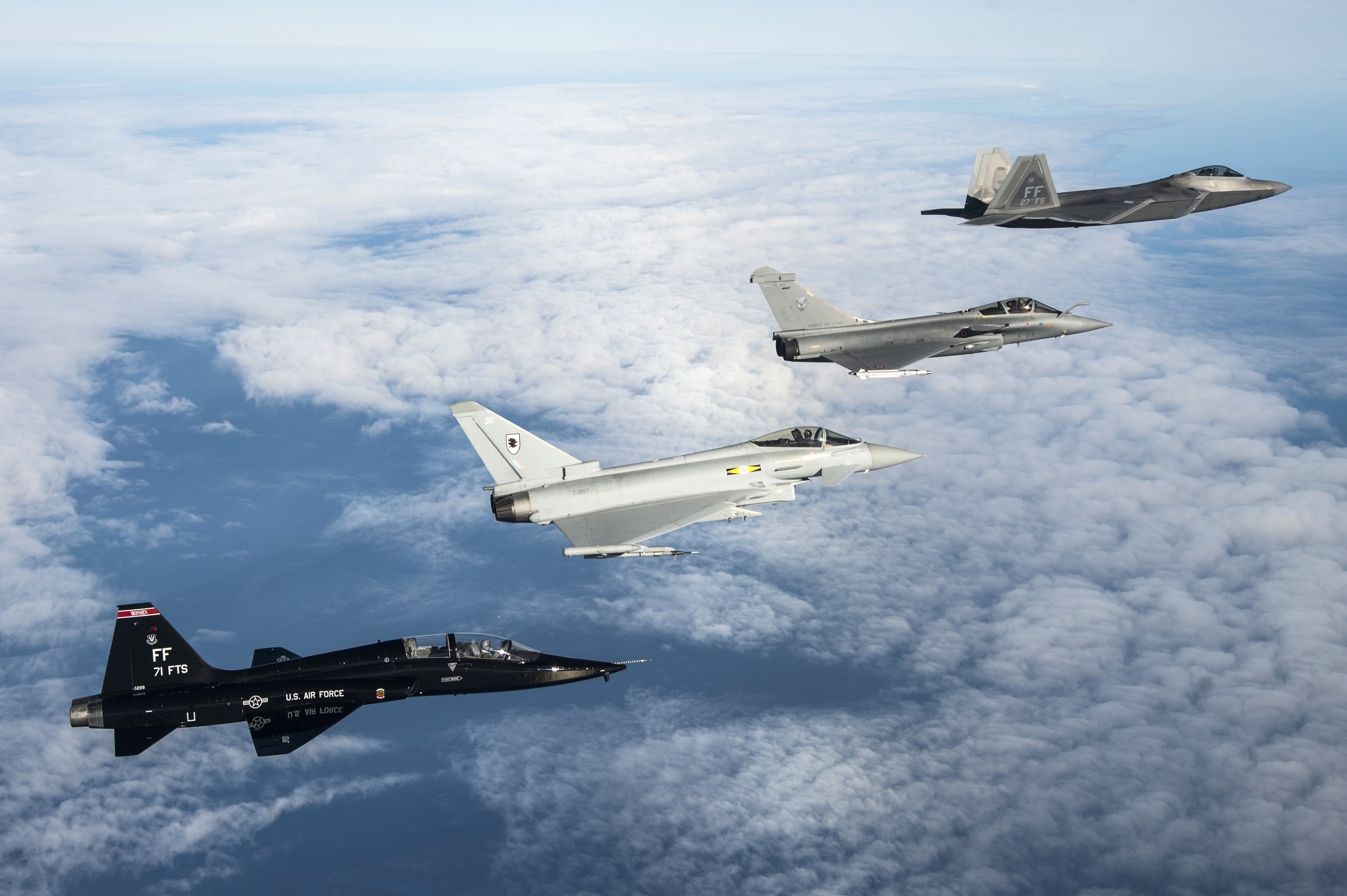 A U.S. Air Force T-38 Talon, British Royal Air Force Typhoon, French air force Rafale and U.S. Air Force F-22 Raptor fly in formation as part of a Trilateral Exercise held at Langley Air Force Base, Va., Dec. 7, 2015. The 1st Fighter Wing hosted the exercise which focuses on operations in a highly-contested operational environment. (U.S. Air Force photo by Senior Airman Kayla Newman)